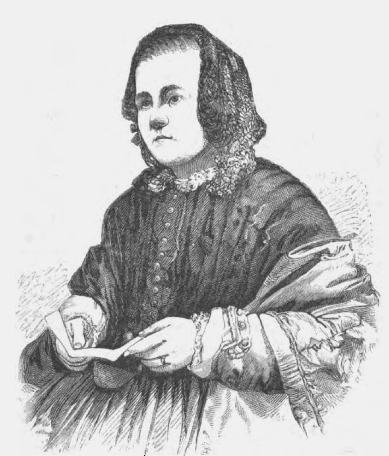 Wood engraving of 19th century English humanitarian Caroline Chisholm (30 May 1808 – 25 March 1877). A copy is available at Library of Congress Prints and Photographs Division Washington, D.C. 20540 USA CALL NUMBER: BIOG FILE - Chisholm, Caroline [P&P]